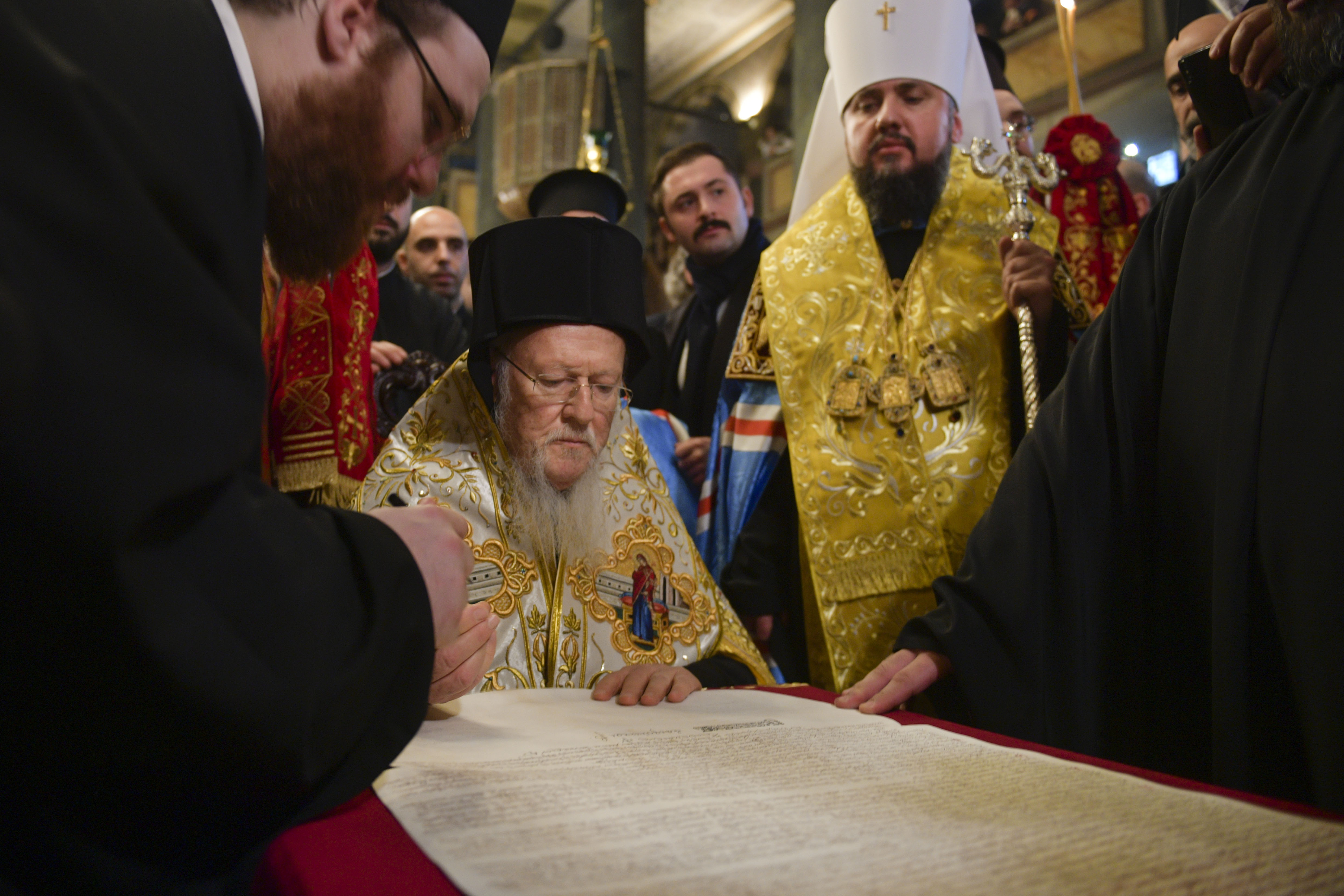 Working visit of the President of Ukraine Petro Poroshenko to the Turkish Republic (2019-01-05)